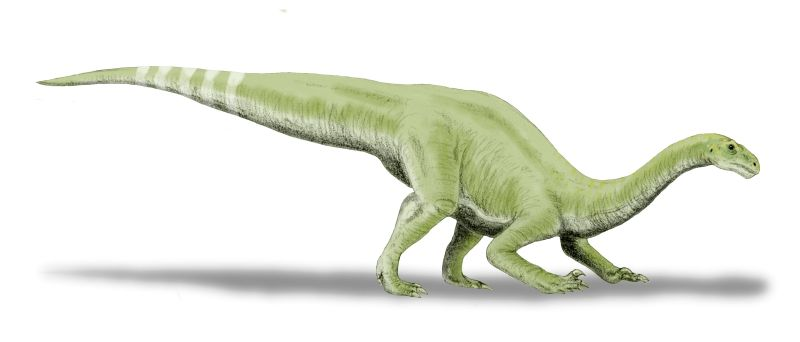 Lamplughsaura dharmarasensis, a basal sauropodomorph from the Lower Jurassic of India, after description by T.S. Kutty et al., 2007, pencil drawing, digital coloring